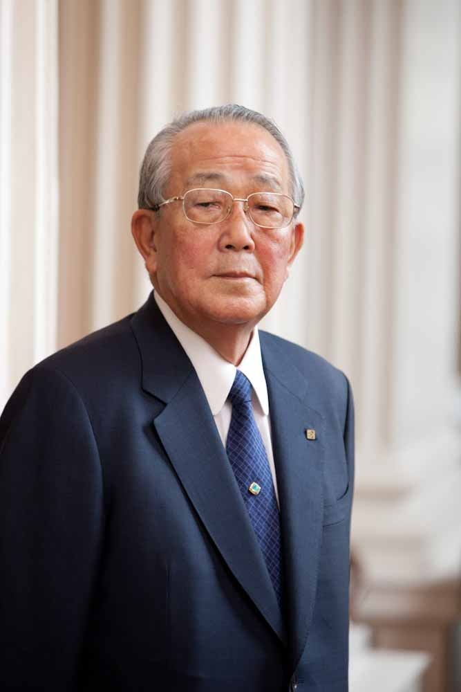 Photograph of Kazuo Inamori, founder and chairman emeritus of Kyocera Corporation, and recipient of the 2011 Othmer Gold Medal, Taken at the 2011 Heritage Day, April 8, 2011, Chemical Heritage Foundation, Philadelphia, PA, USA.